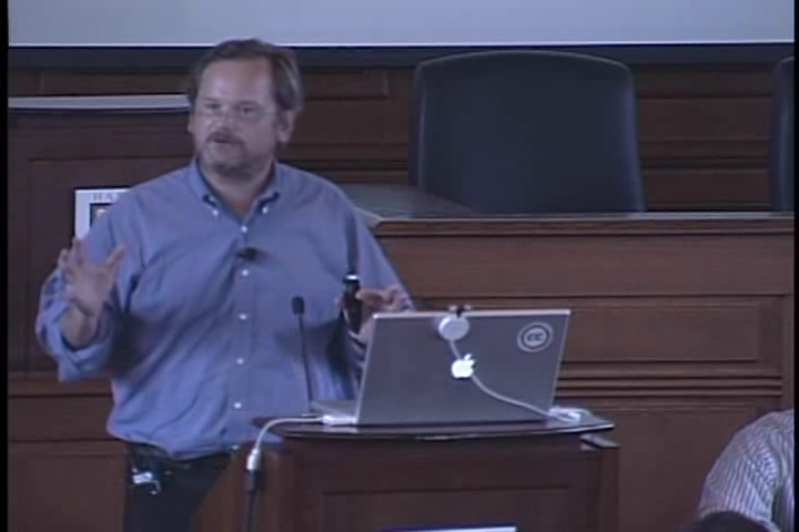 Screenshot of Lawrence Lessig presenting "The Ethics of the Free Culture Movement" at Wikimania 2006.